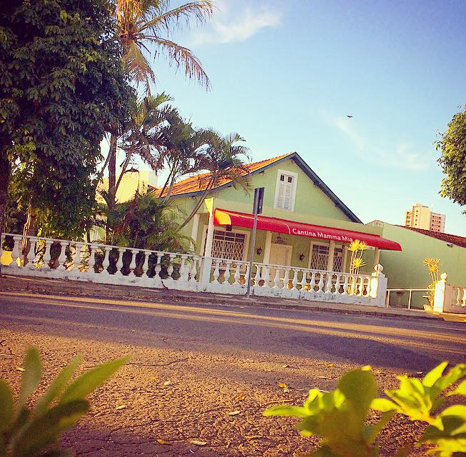 Former Headquarters of Bomfim Farmer